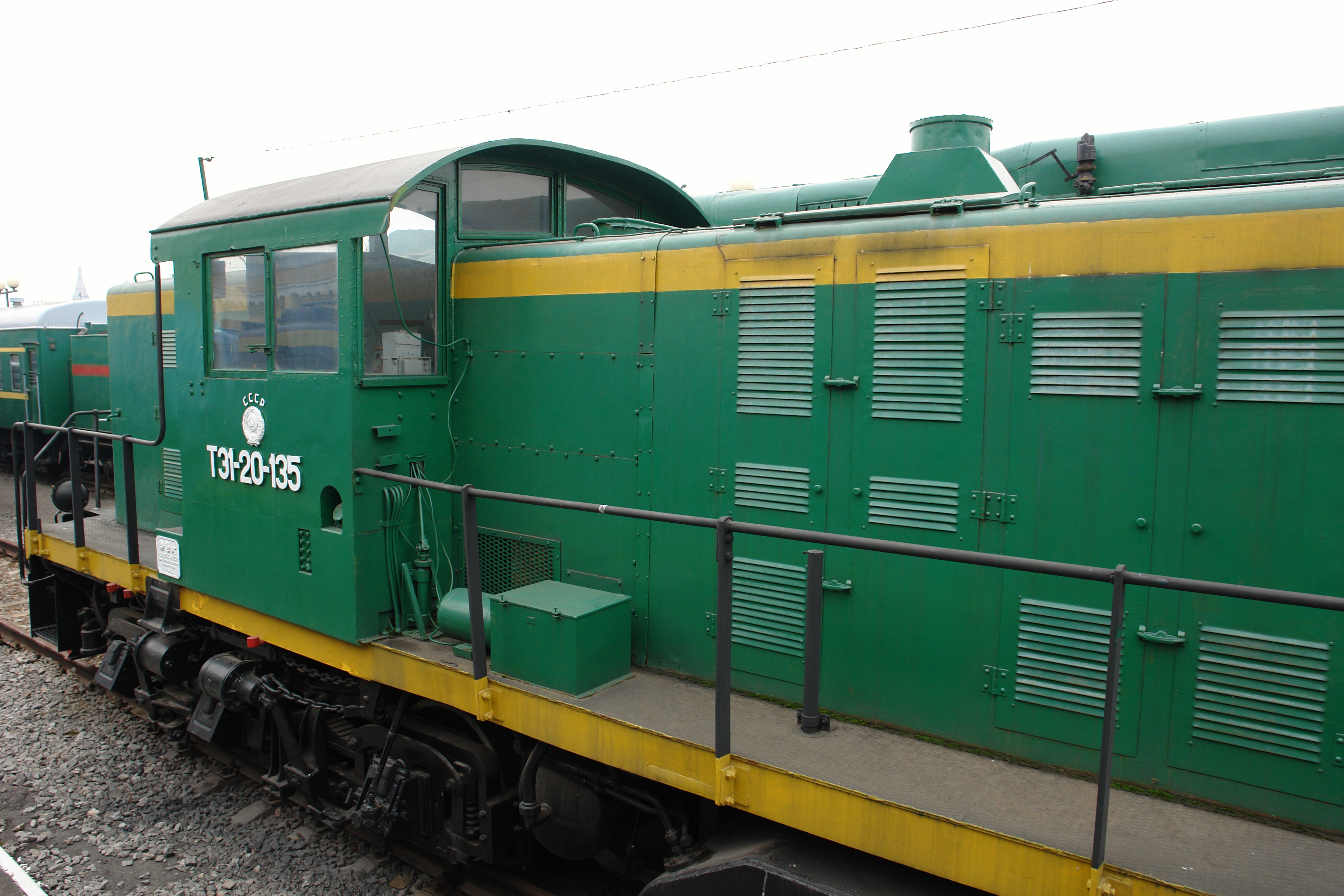 Freight and passenger diesel locomotive TE1-20-135